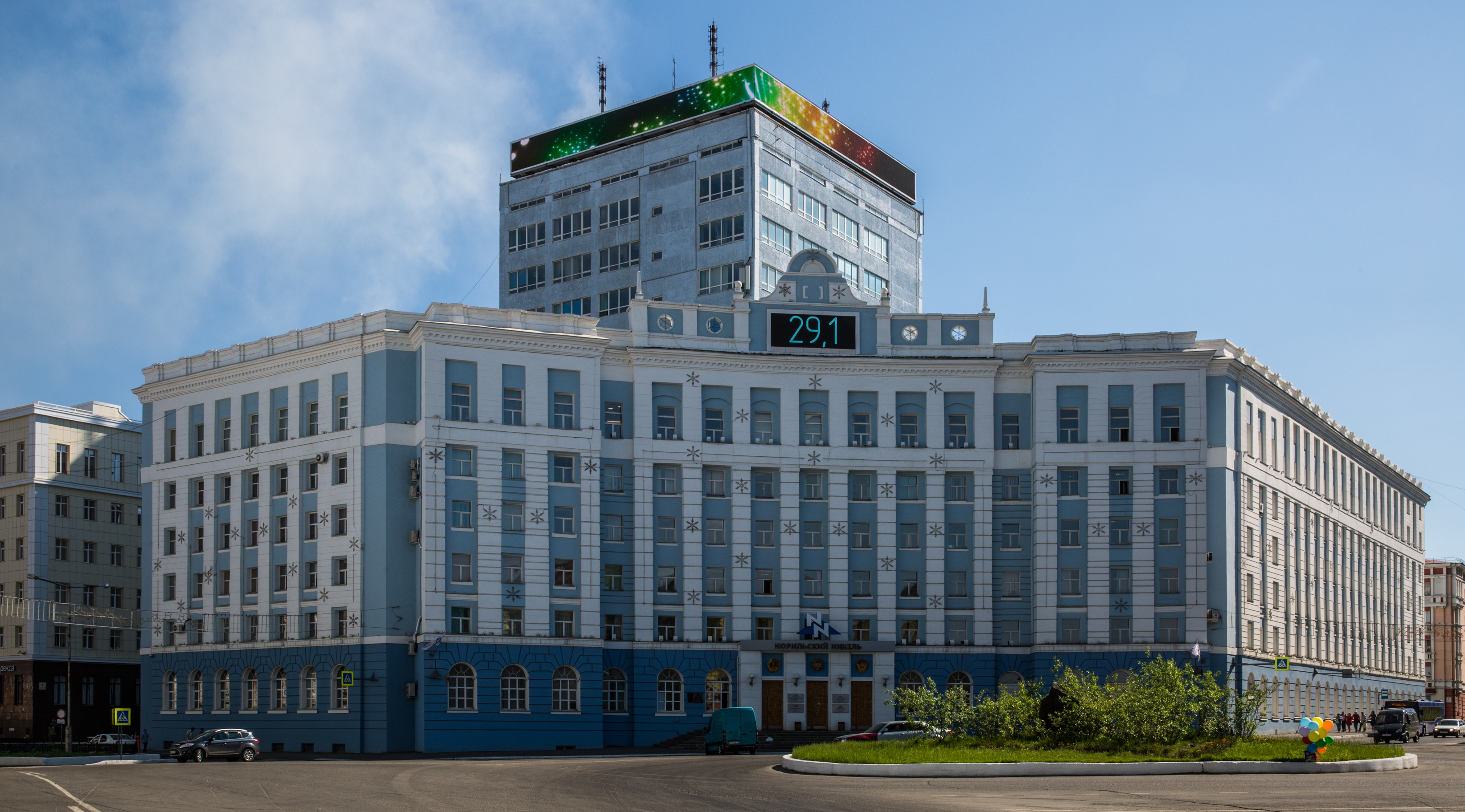 Norilsk Nickel office in Norilsk